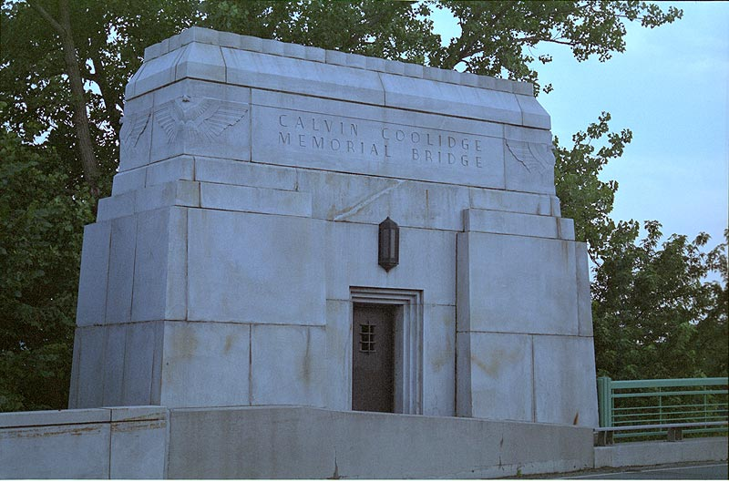 South east anchor of Calvin Coolidge bridge, with art deco detail and bronze door. Howard S Shubs, 2007-07-06